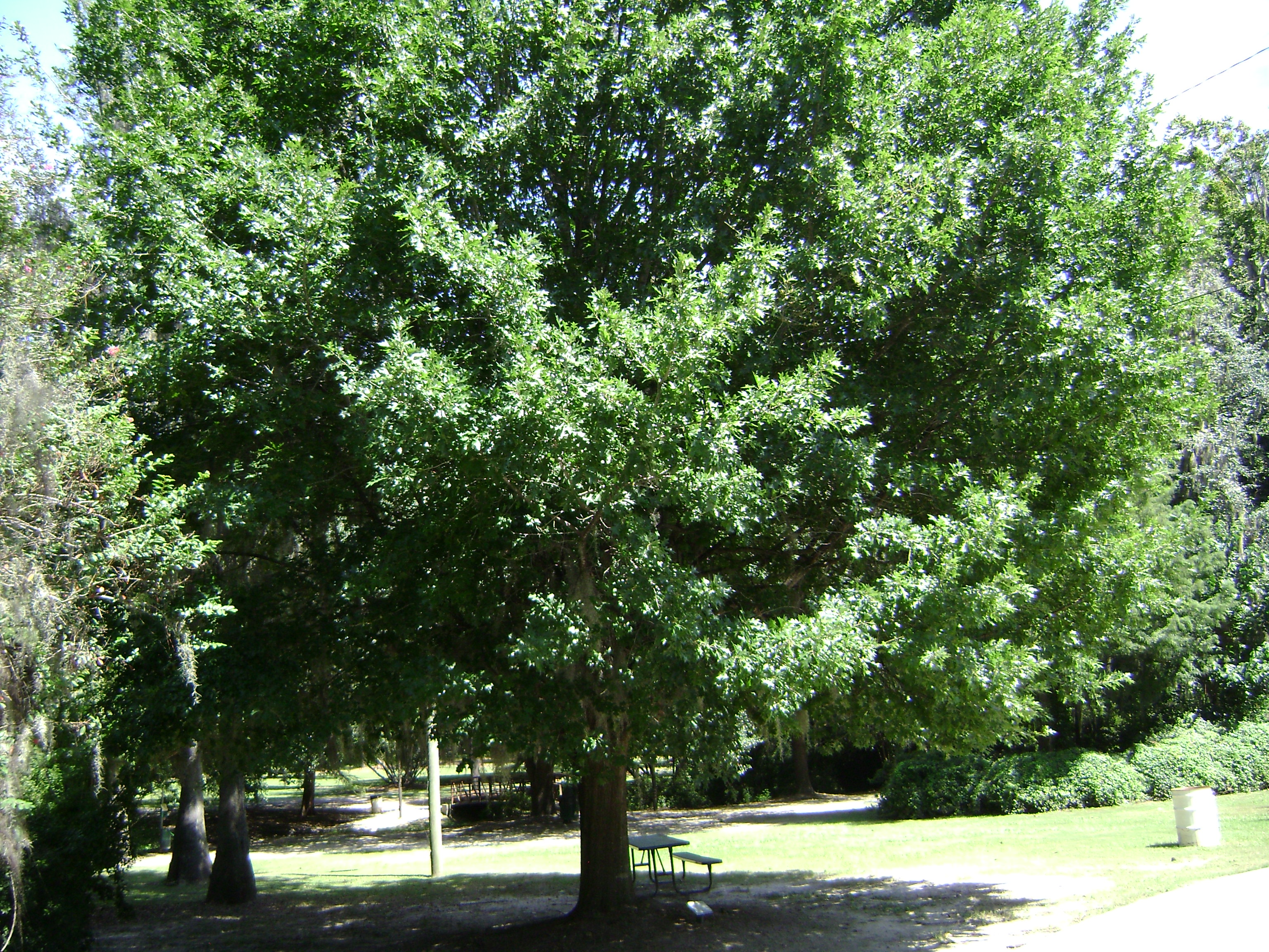 Tree in Drexel Park, Valdosta, Lowndes County, Georgia